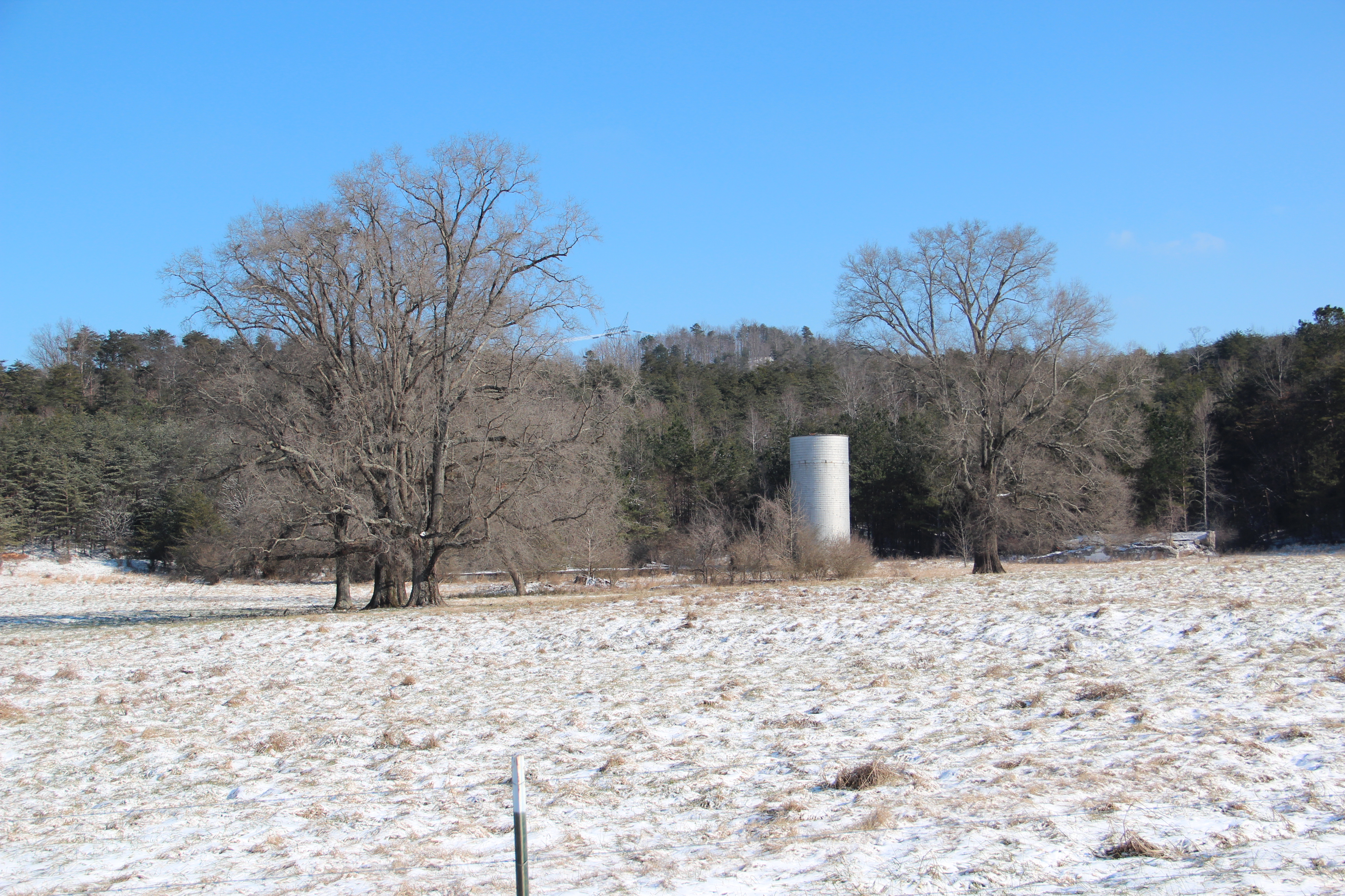 Snowy field in Funkhouser, Georgia